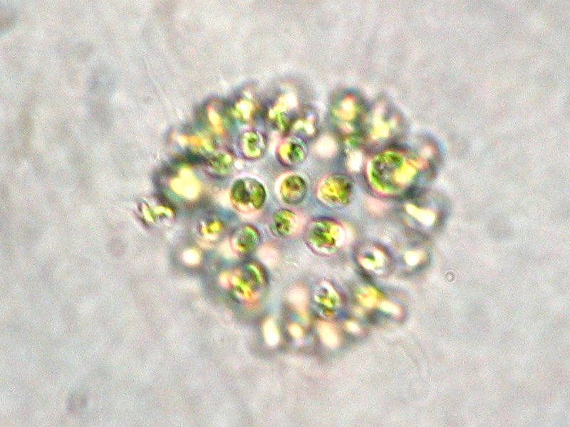 This work is free and may be used by anyone for any purpose. If you wish to use this content, you do not need to request permission as long as you follow any licensing requirements mentioned on this page.